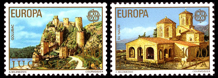 Postage stamps of Yugoslavia, 1978. Issue under the Europa-CEPT program.